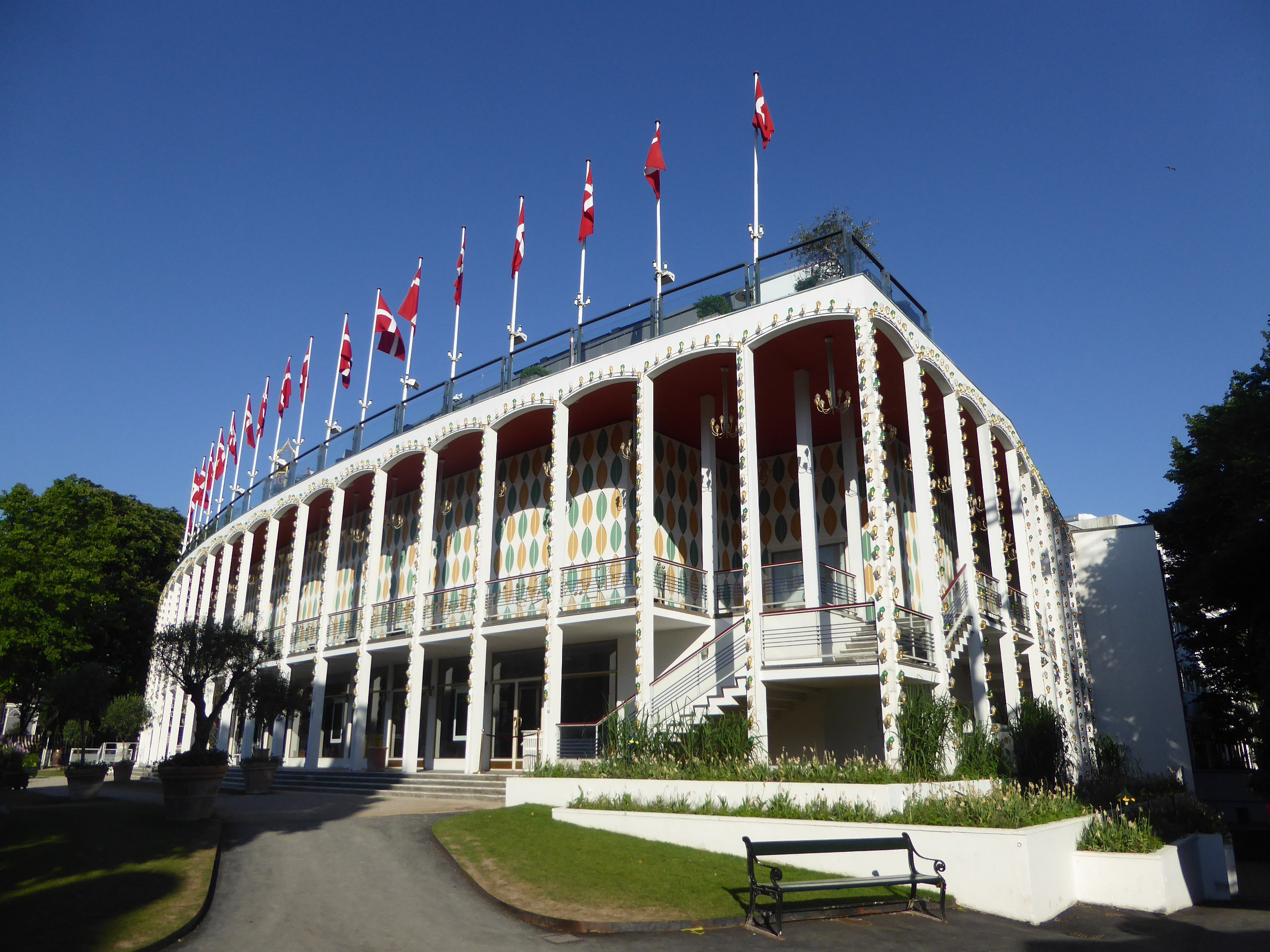 Koncertsalen (the Concert Hall) in the amusement park Tivoli in Copenhagen.